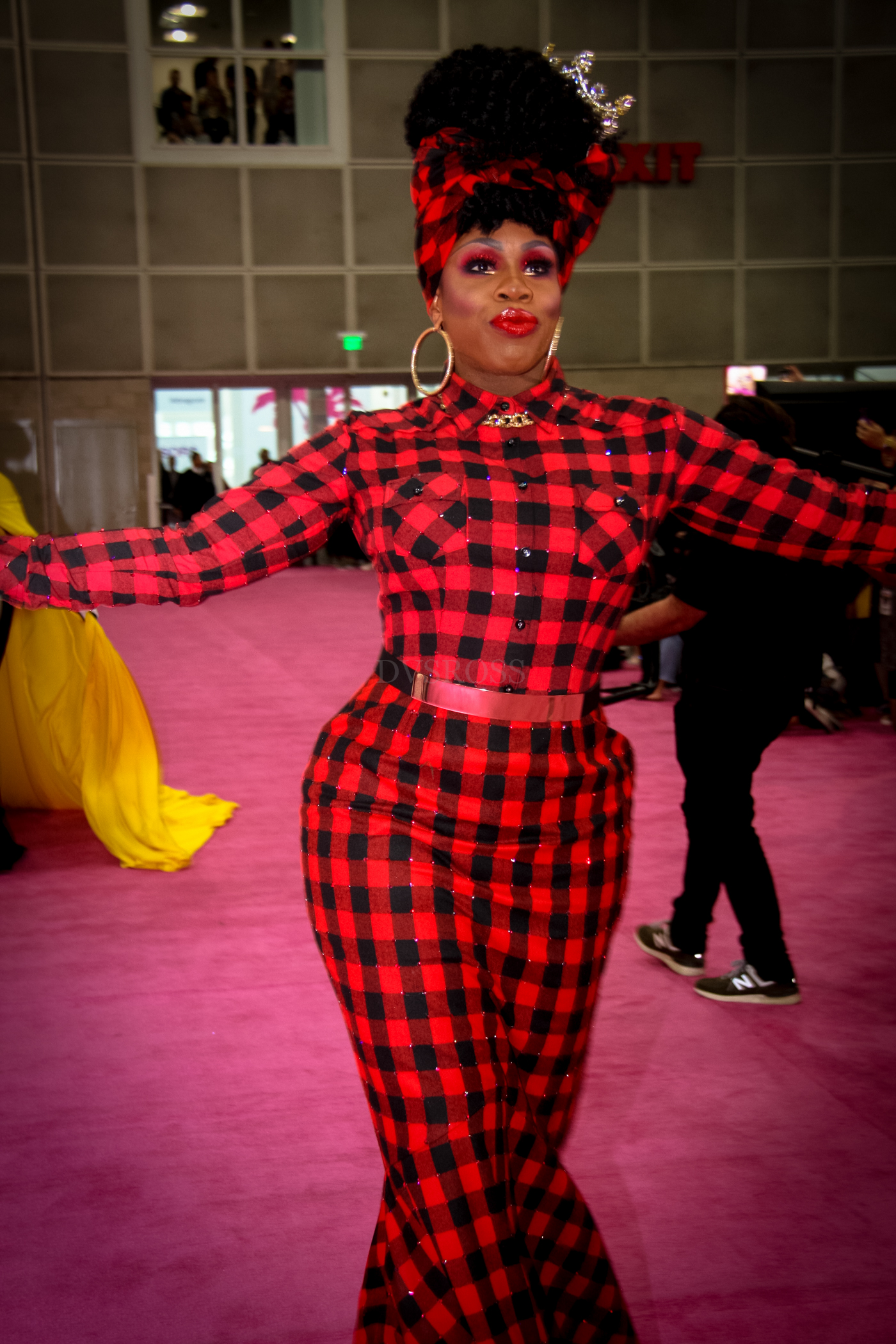 Monét X Change at RuPaul's Dragcon 2019